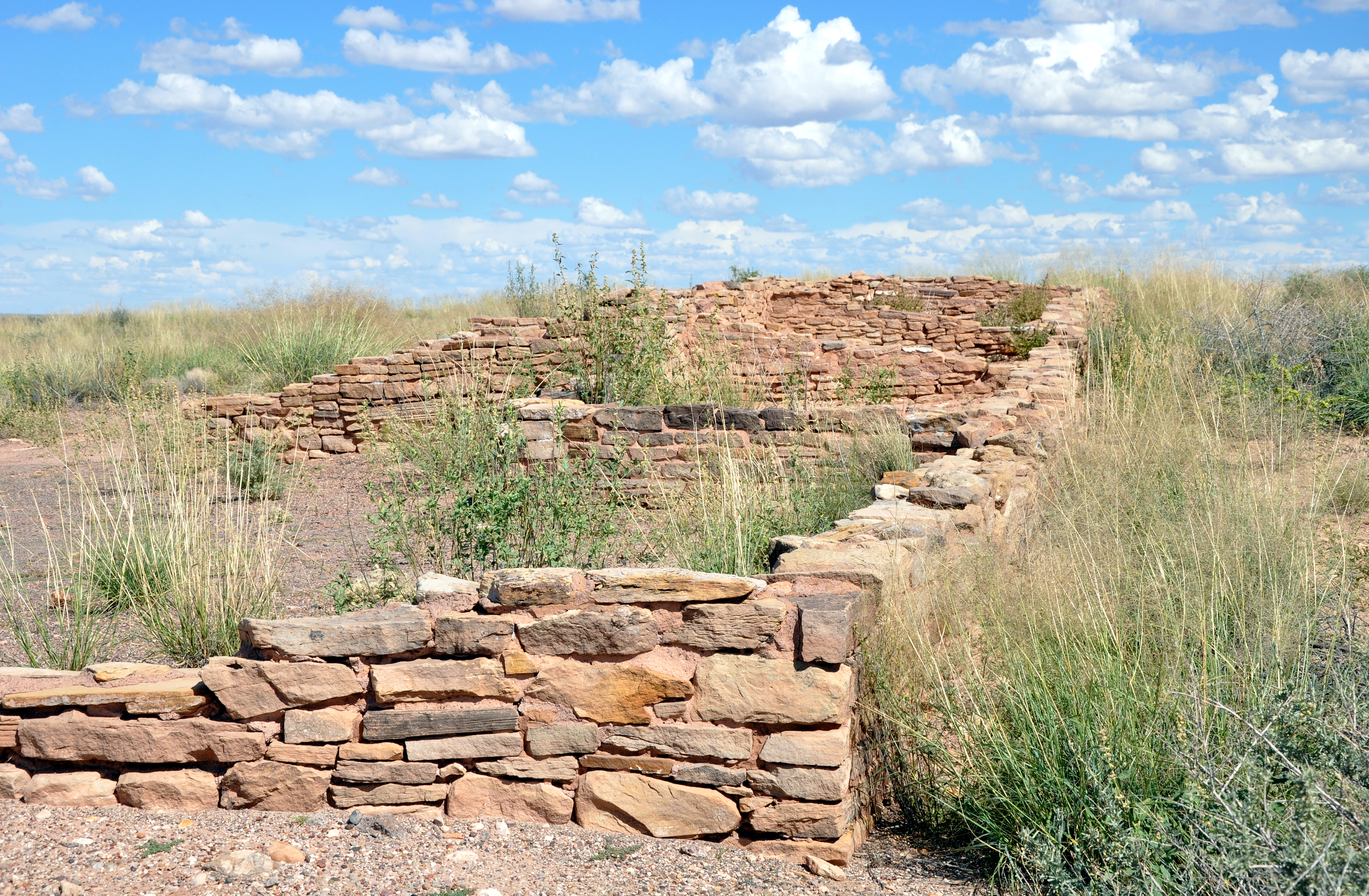 Ruins of Puerco Pueblo, occupied from about 1250 to about 1380 CE, in Petrified Forest National Park in northeastern Arizona, United States